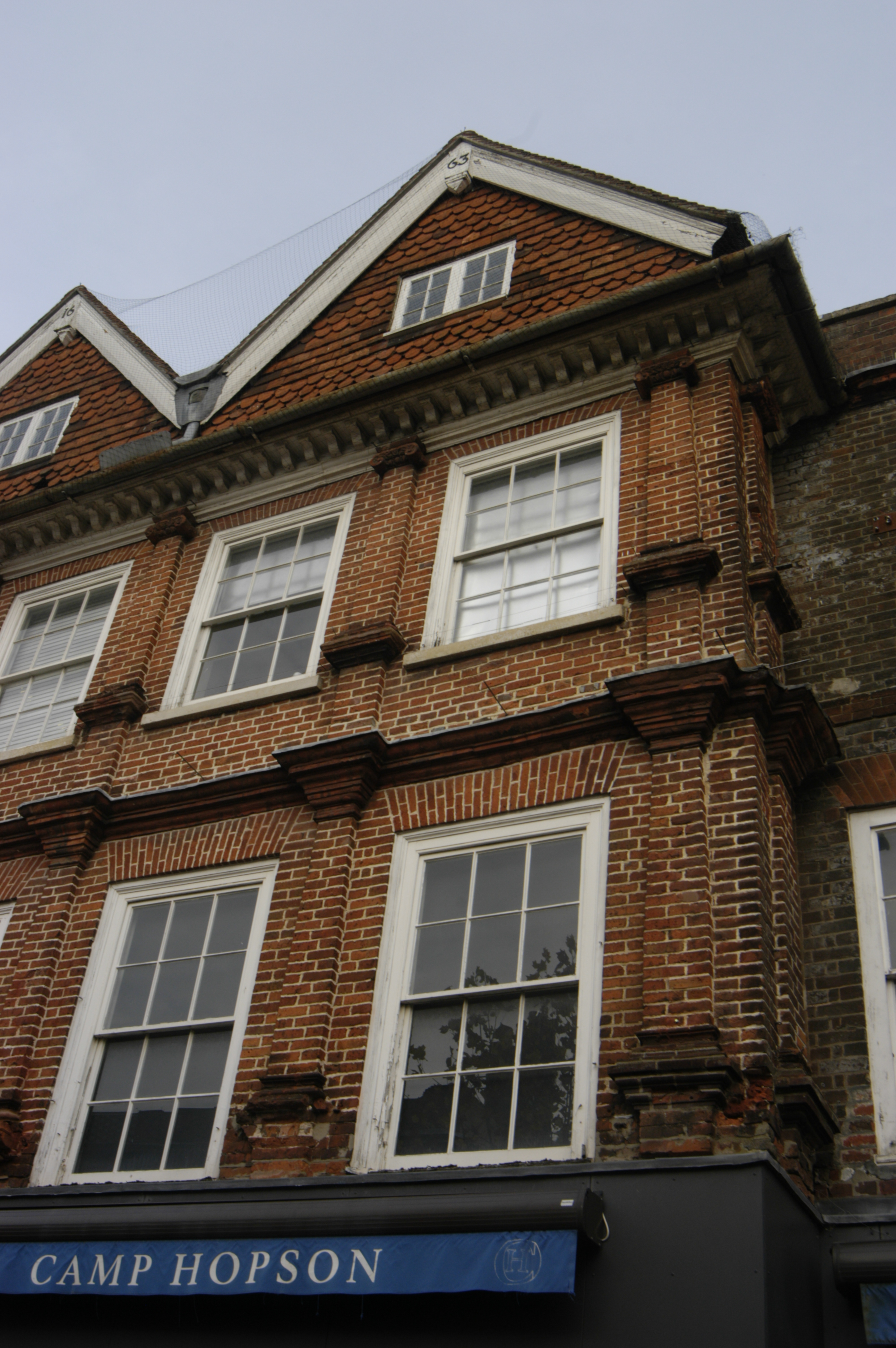 Photo (by me, R. de Salis Rodolph (talk) 19:55, 22 November 2014 (UTC)) of part of the facade of 1663, Camp Hopson of Newbury, in 2014.